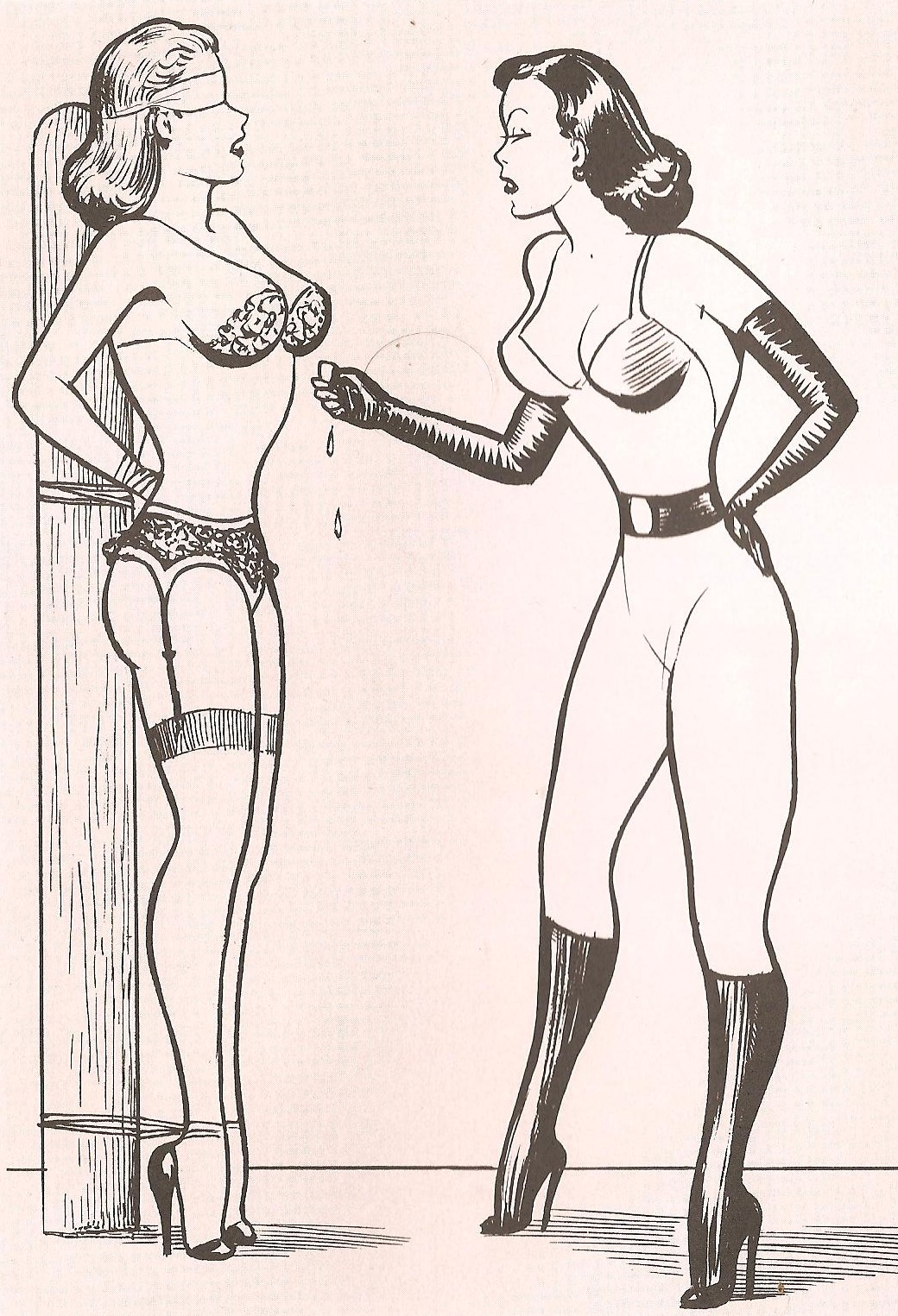 S/M image of lookalike Superman and Lois Lane drawn by the original creator during dispute with employer